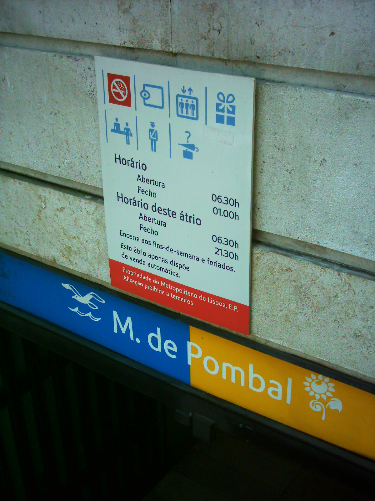 Marquês de Pombal metro station entry signs, Lisbon, Portugal.